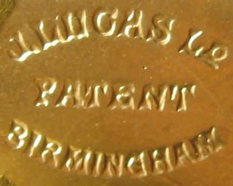 Stamp on military vehicle lamp - "J.Lucas LD patent Birmingham". WWII time. *Lucas Industries